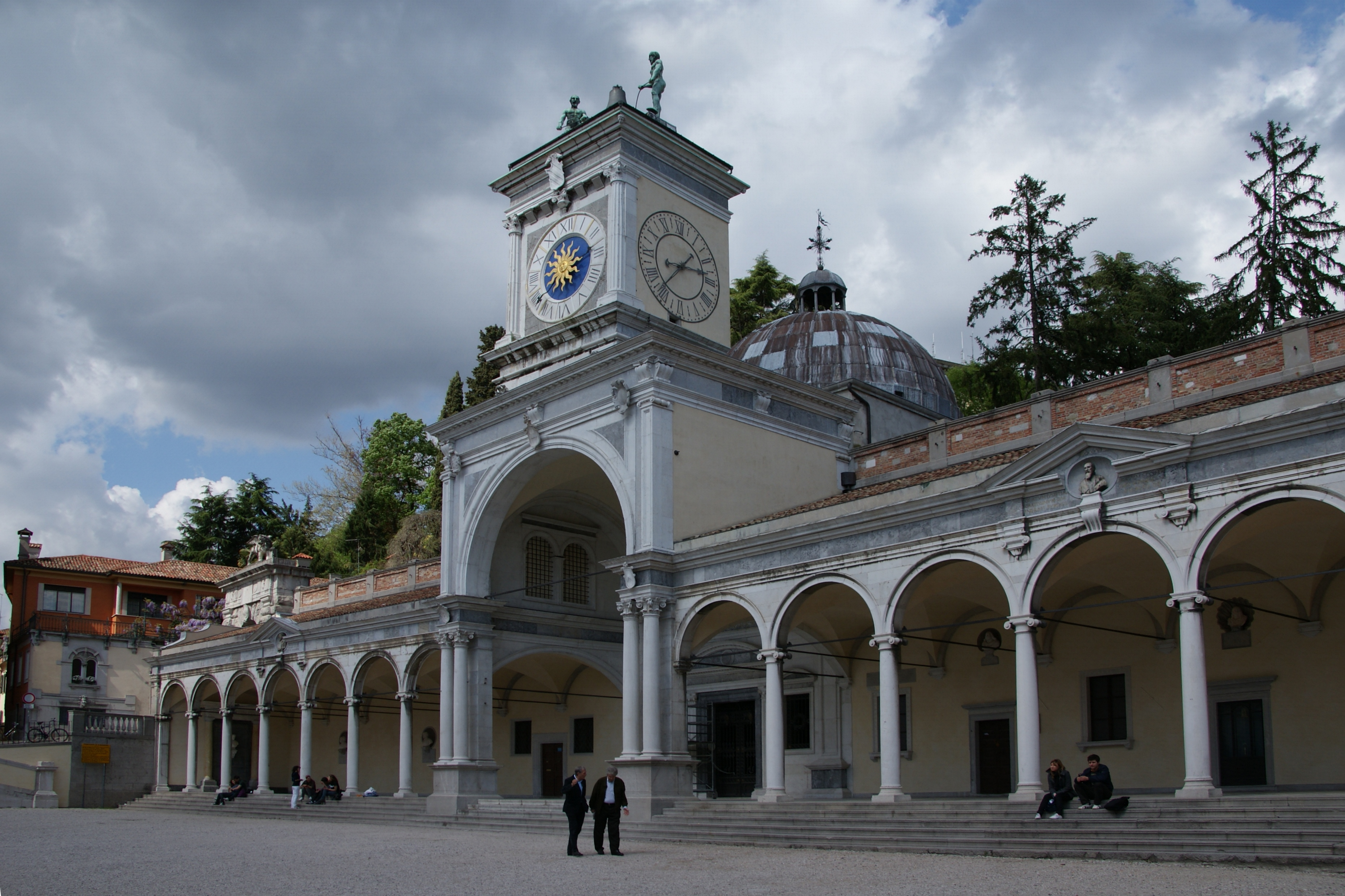 Udine, Loggia di San Giovanni